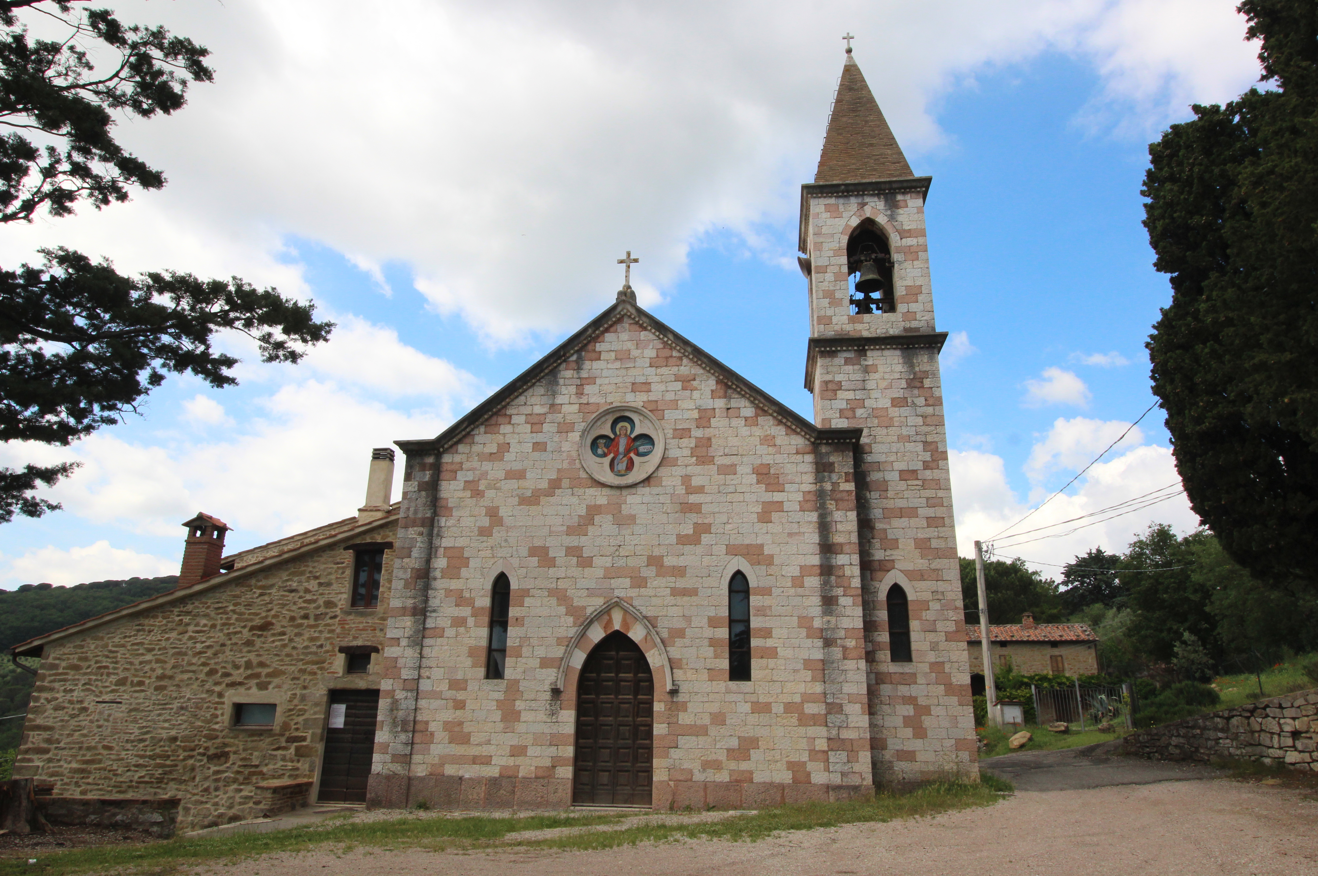 Church San Michele Arcangelo (also Santa Lucia), Vernazzano alto (also Vernazzano Santa Lucia), Vernazzano, hamlet of Tuoro sul Trasimeno, Umbria, Italy